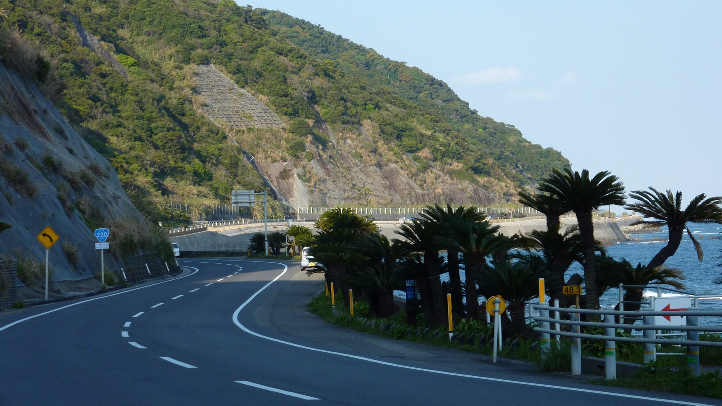 National Route 220 (Nichinan City, Miyazaki Prefecture, Japan)